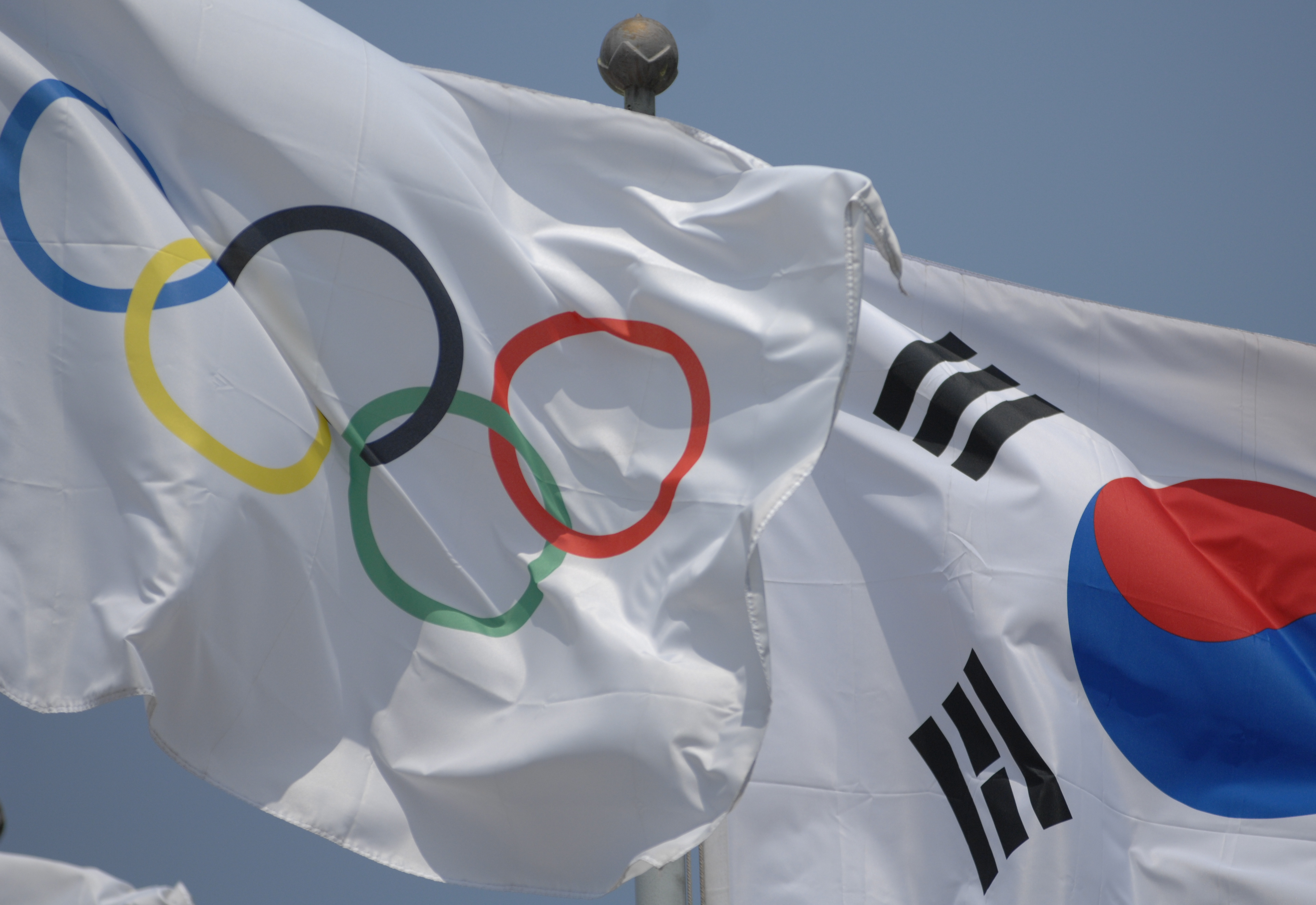 Olympic flag and South Korean flag in Olympic Park - Seoul, South Korea 090503.